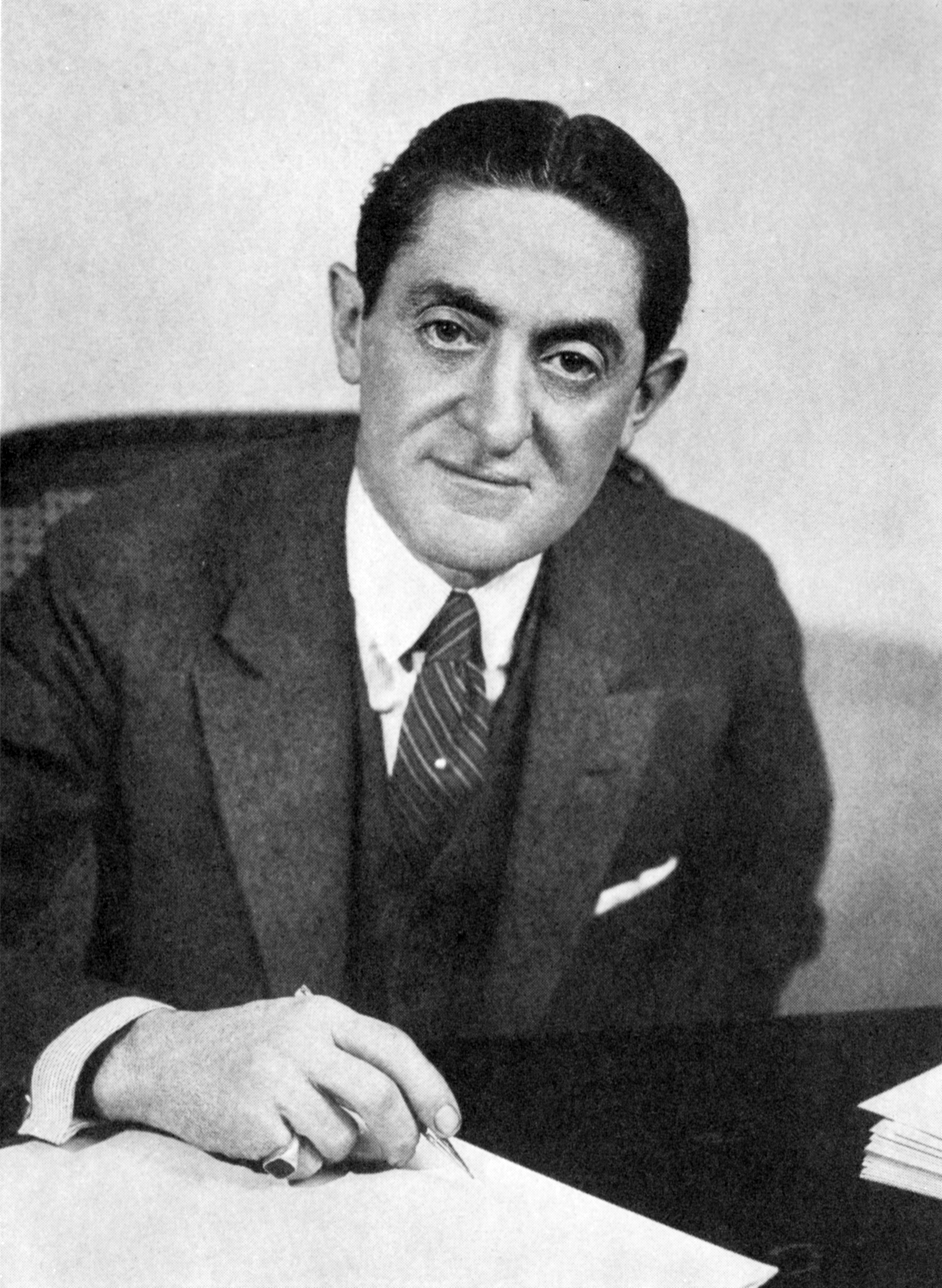 Portrait photograph of theatrical producer Sam H. Harris Caption reads as follows: Sam H. Harris was born in New York City in 1872. Thrown on his own resources at the age of eleven he began at once to carve out a future, which is now a part of Broadway history. First as a partner of the producing firm of Sullivan, Harris and Woods, he later became associated with George M. Cohan under the firm name of Cohan & Harris. He has produced a considerable number of play hits and is the lessee and manager of the Sam H. Harris Theatre, Music Box and Bronx Opera House in New York and the Grand Opera House and Sam H. Harris Theatre of Chicago. His most pronounced recent success is the mystery play The Spider.